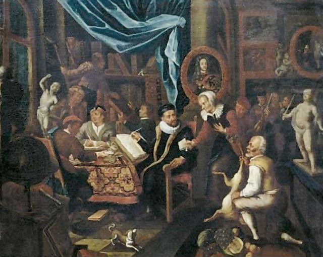 "The collector of tithes" oil on Canvas.